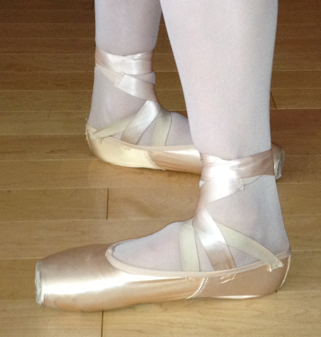 A ballet dancer demonstrating Closed Fourth Position.